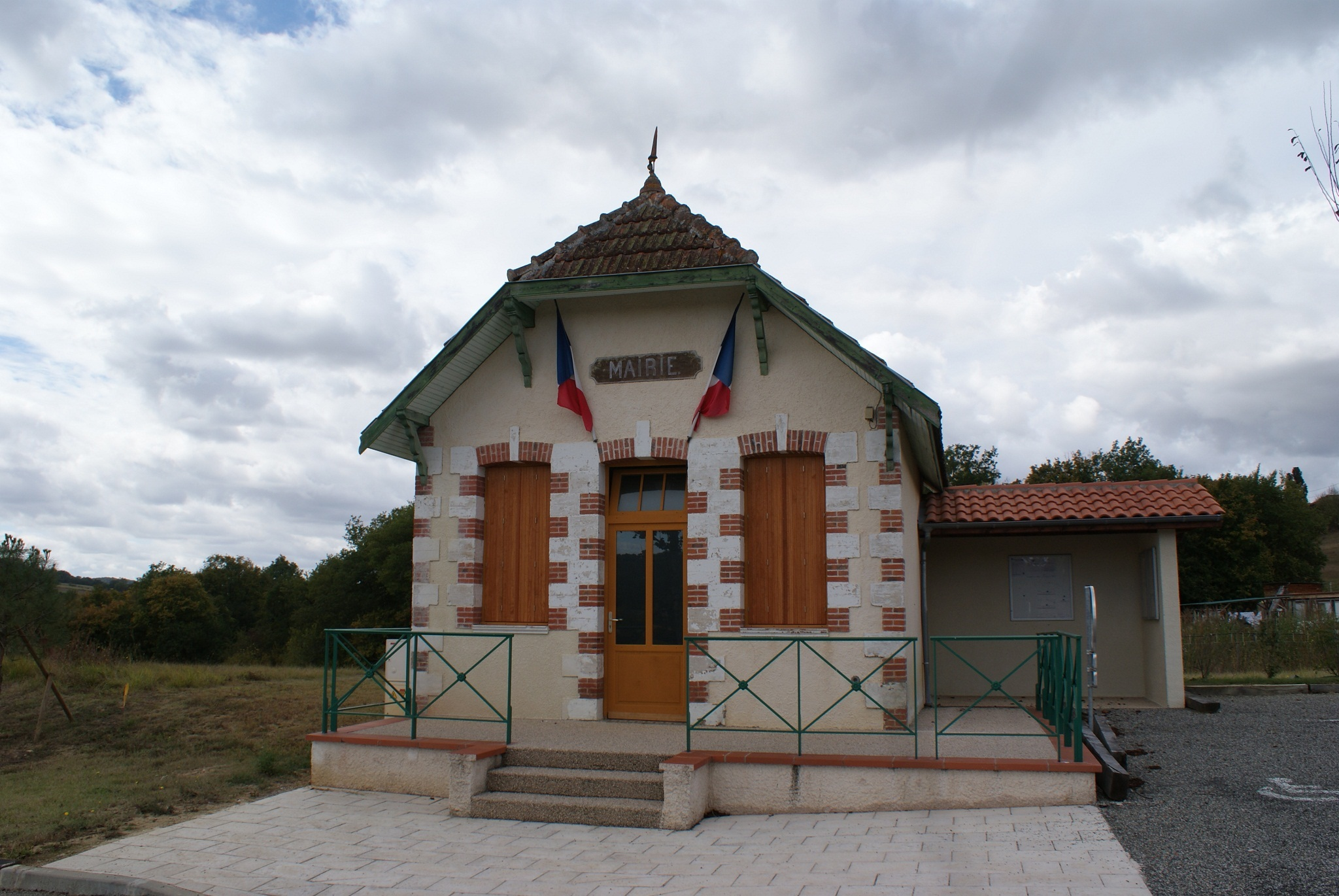 Town hall of Monbardon